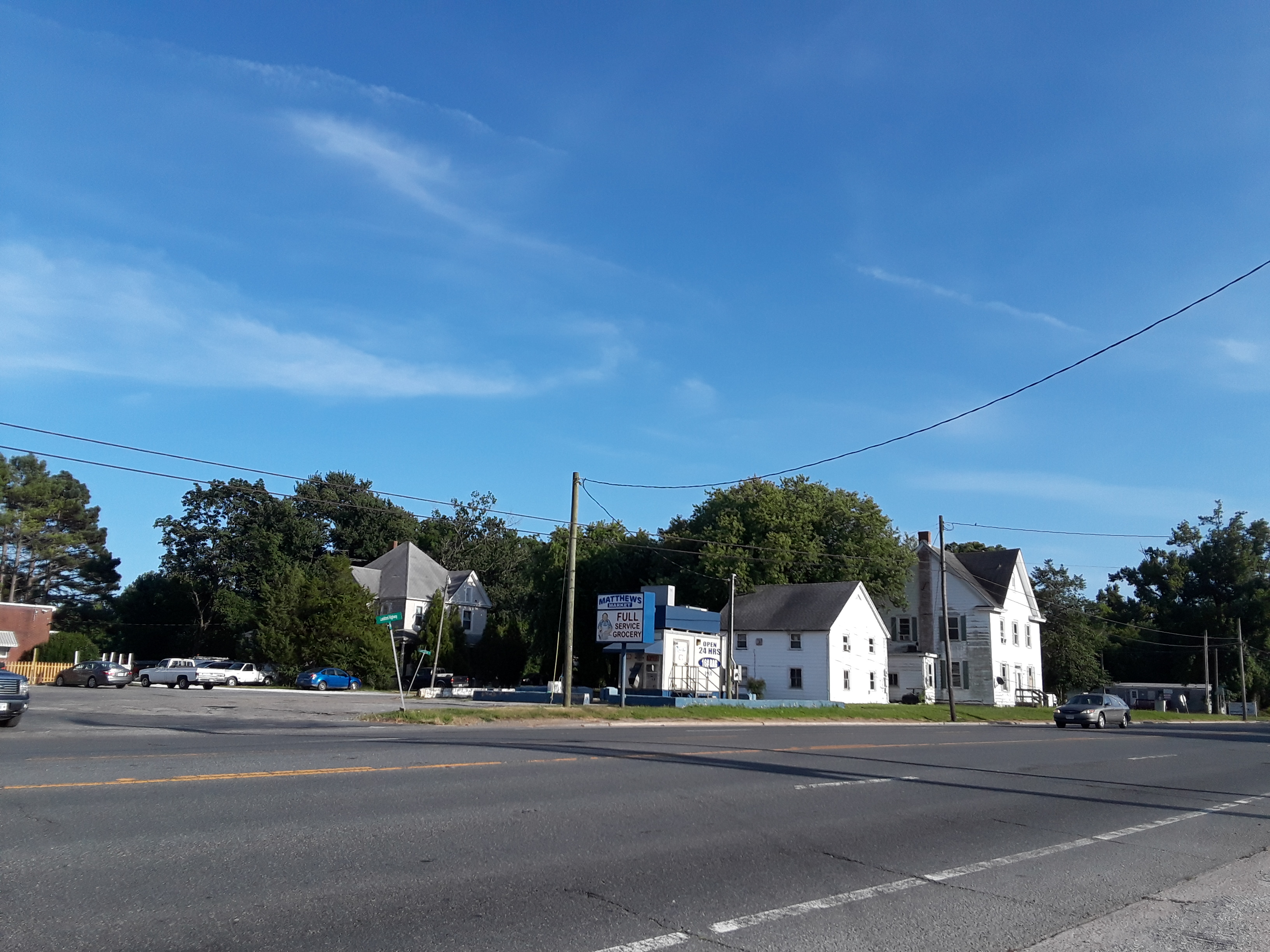 Taken on a visit to the Eastern Shore of Virginia, July 2018